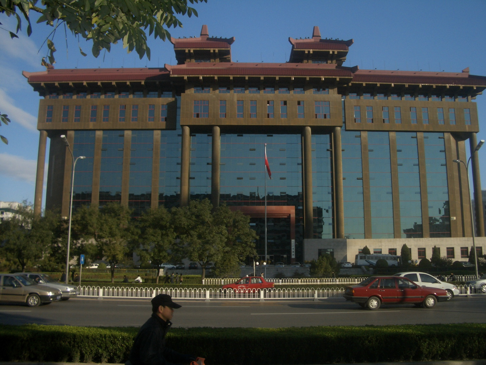 An example of a government building in Beijing, which blends traditional and modernist architectural design.